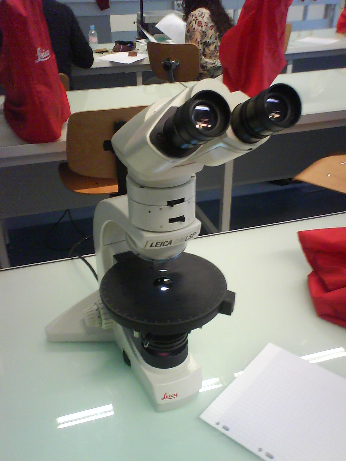 Petrographic microscope.